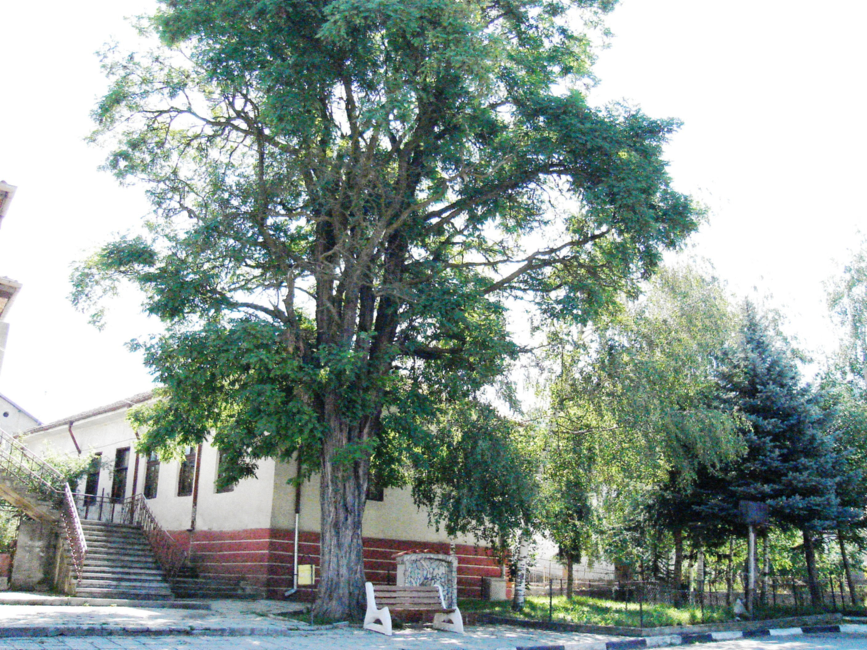 The mayor's office in village Gigintsi, Bulgaria